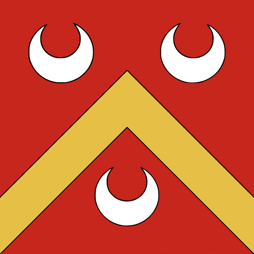 Banner of arms of the Serbian medieval Vojinović family